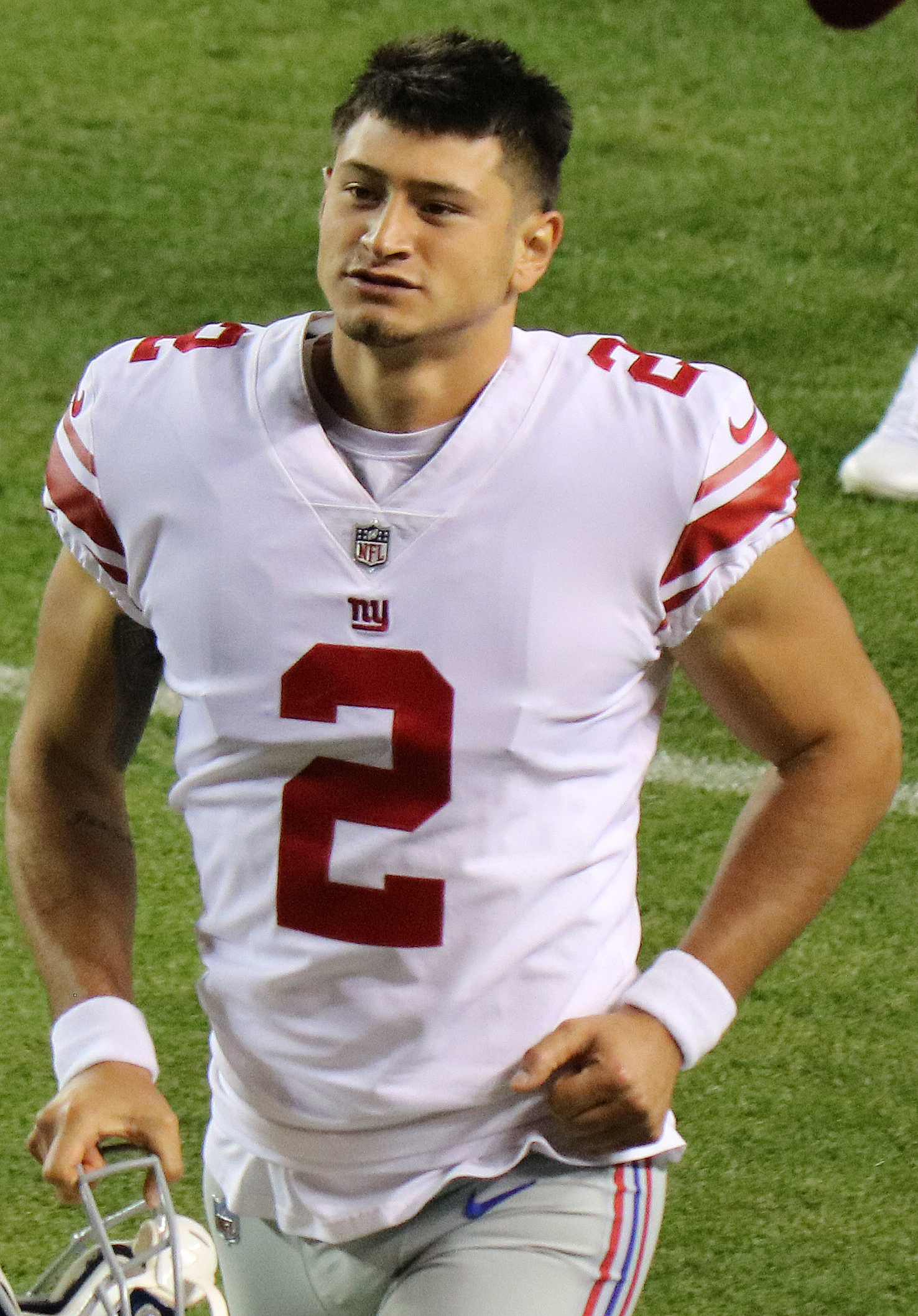 Aldrick Rosas, a player on the National Football League.